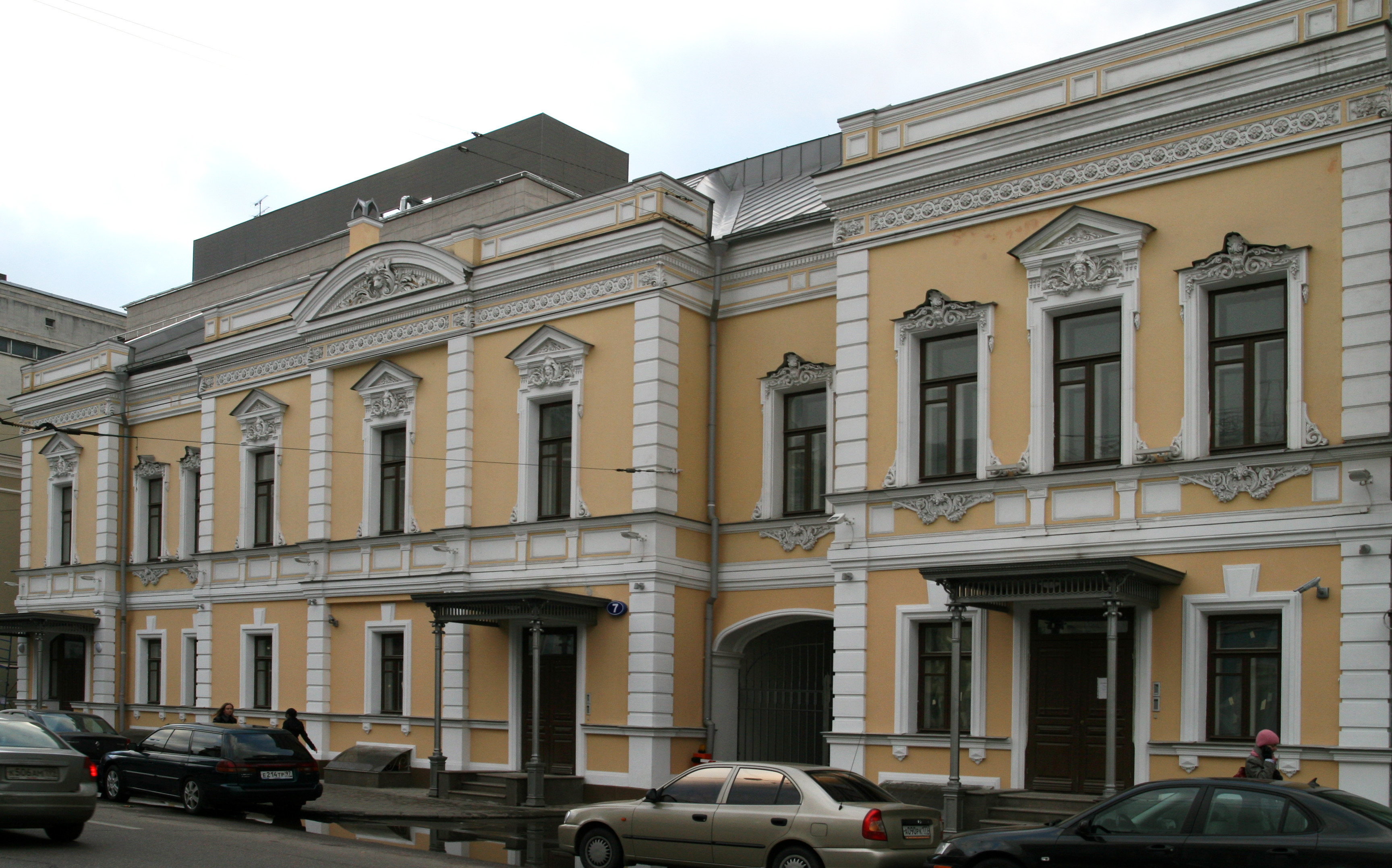 Moscow, Malaya Dmitrovka Street 9